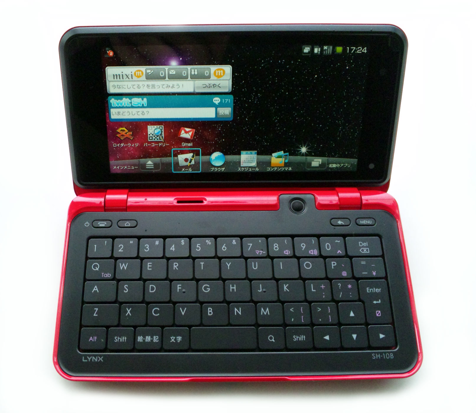 NTT DOCOMO Smartphone LYNX SH-10B（Made By SHARP）